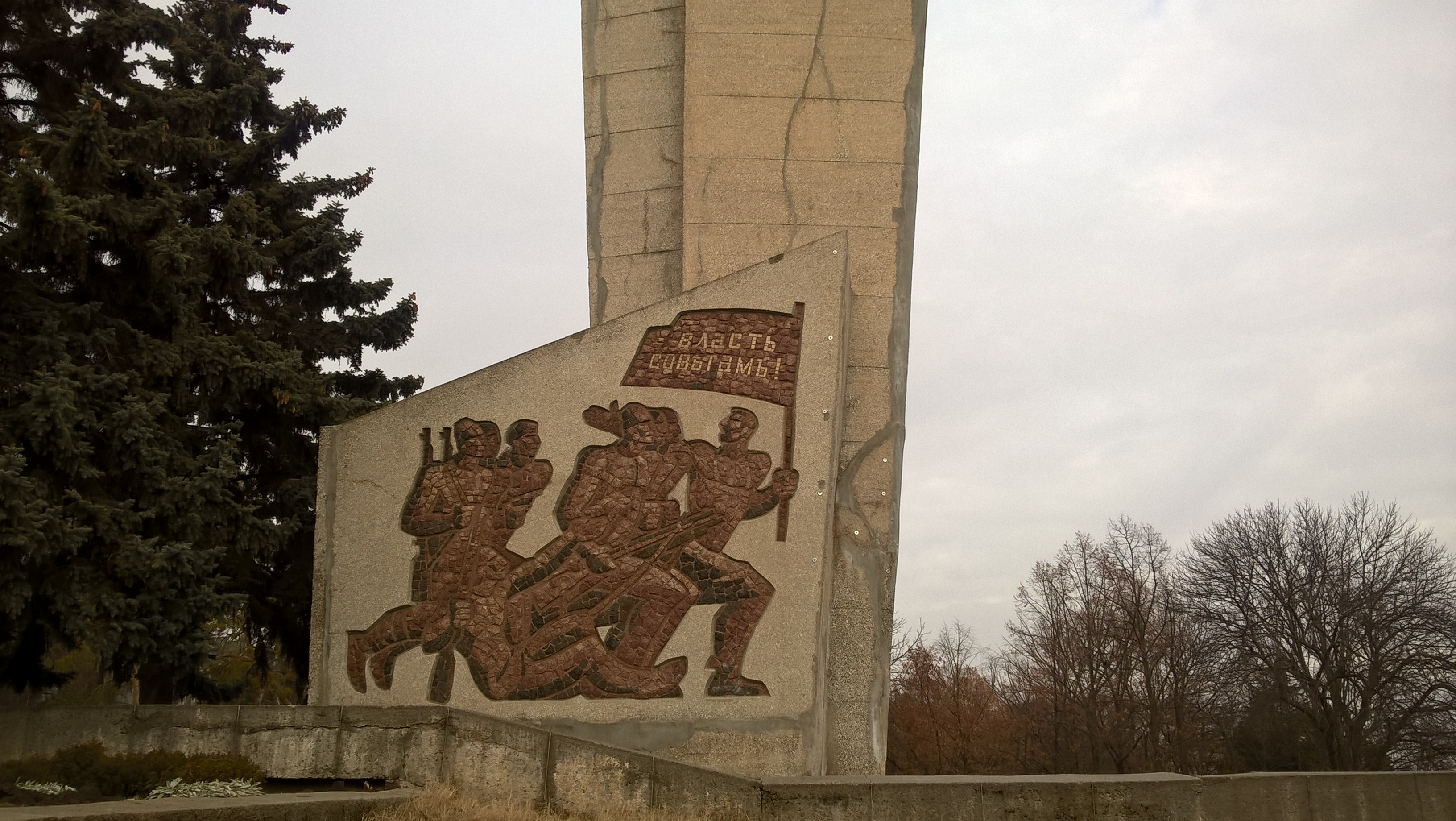 Monument to 1919 Bender Uprising in Bender